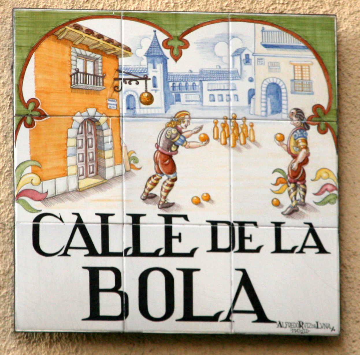 Placa de la calle de la Bola